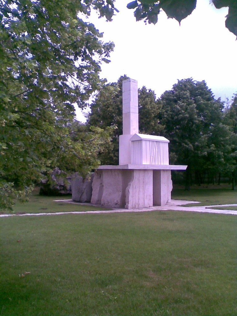 The 1956 revolution martyrs memorial in Budapest (District X, Budapest Public Cemetery, 301 plots)